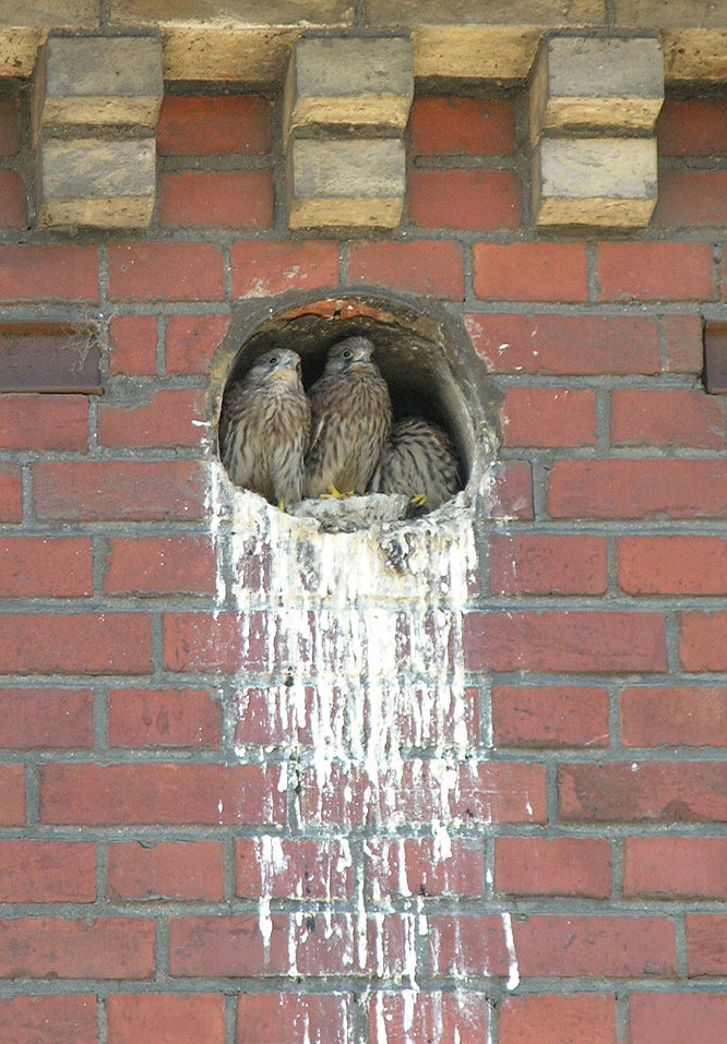 Common Kestrel (Falco tinnunculus) aerie in the front of a factory building on the area of the DRAKENA GmbH, Weißenfels, Germany.